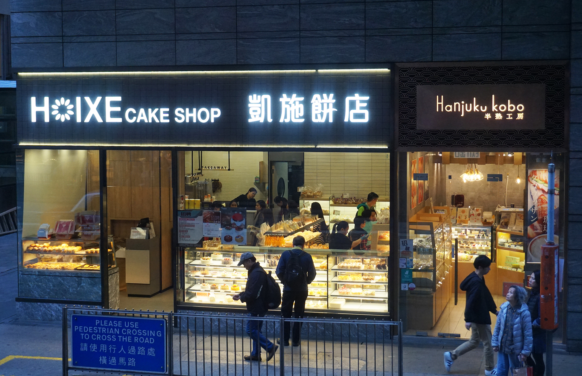 Hoixe Cake Shop and Hanjuku KoBo in Central, Hong Kong.